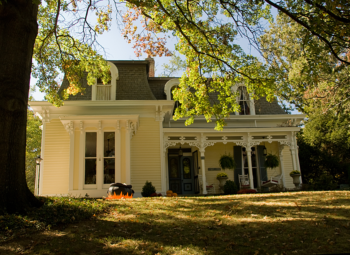 Professor William Pobodie house in Wyoming, OH. Photo by Greg Hume.